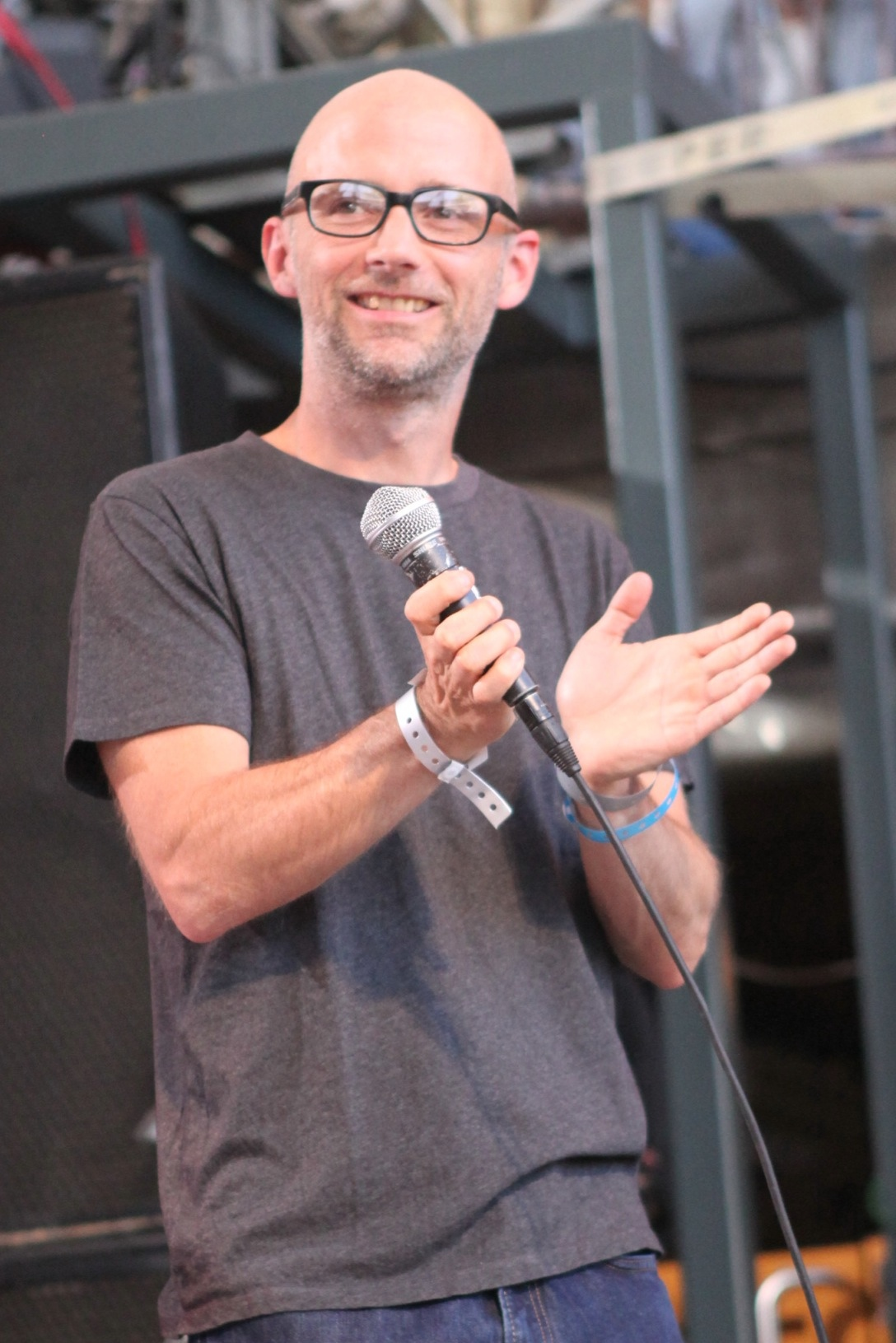 Moby intros OMD for the Spin day party at SXSW.